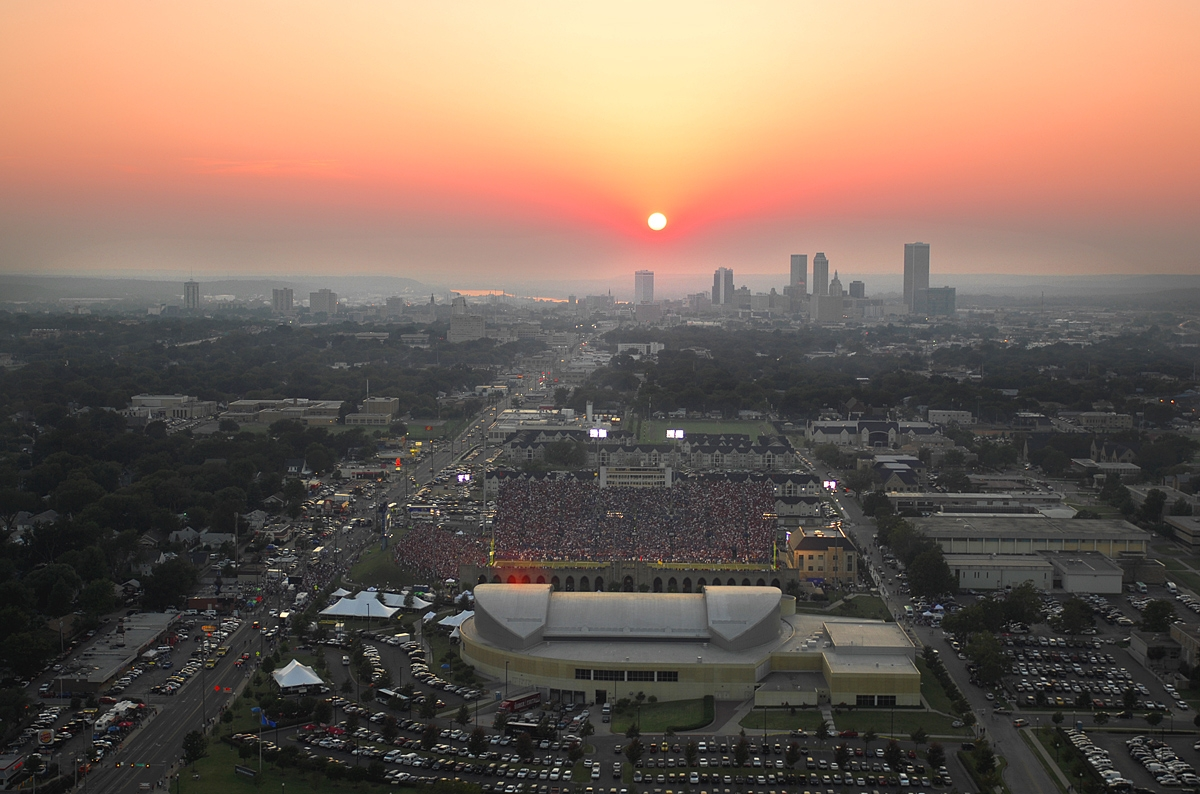 This picture of Tulsa, OK, was taken of TU's football stadium on 11th and Harvard, looking west towards downtown.